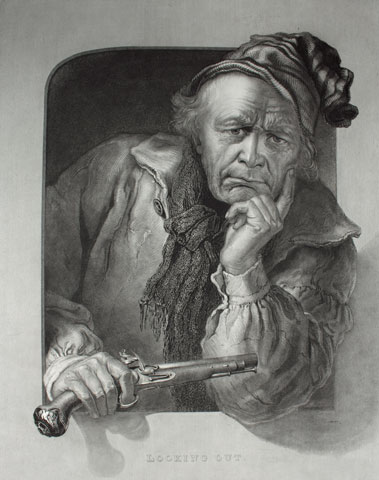 digital photograph of mezzotint print